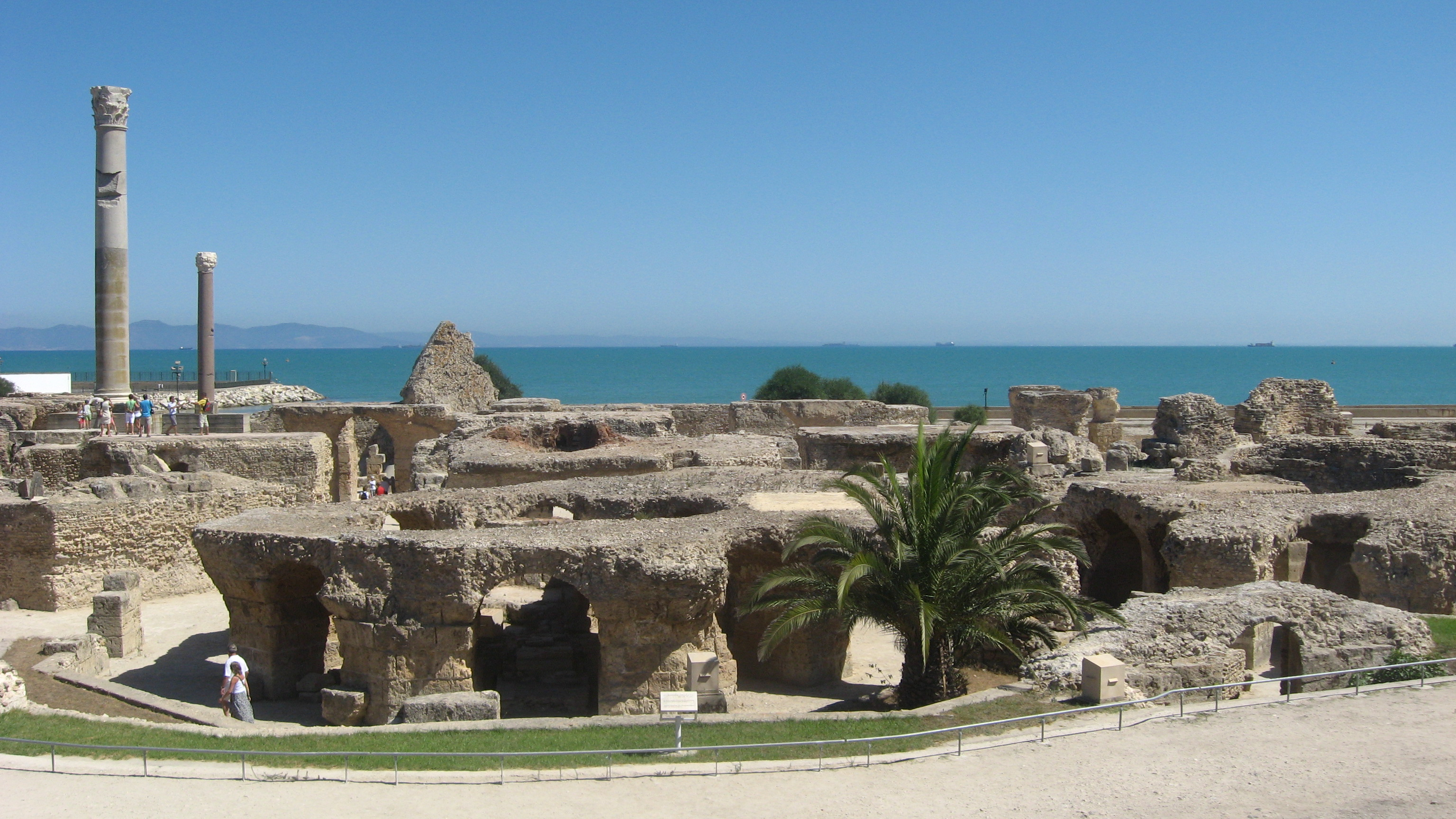 Ruins of Carthage